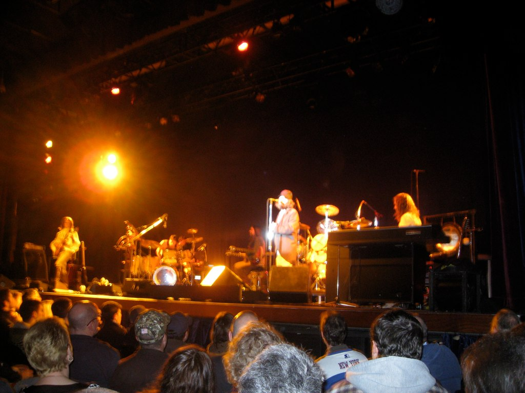 The Musical Box on their A Trick of the Tail tour.